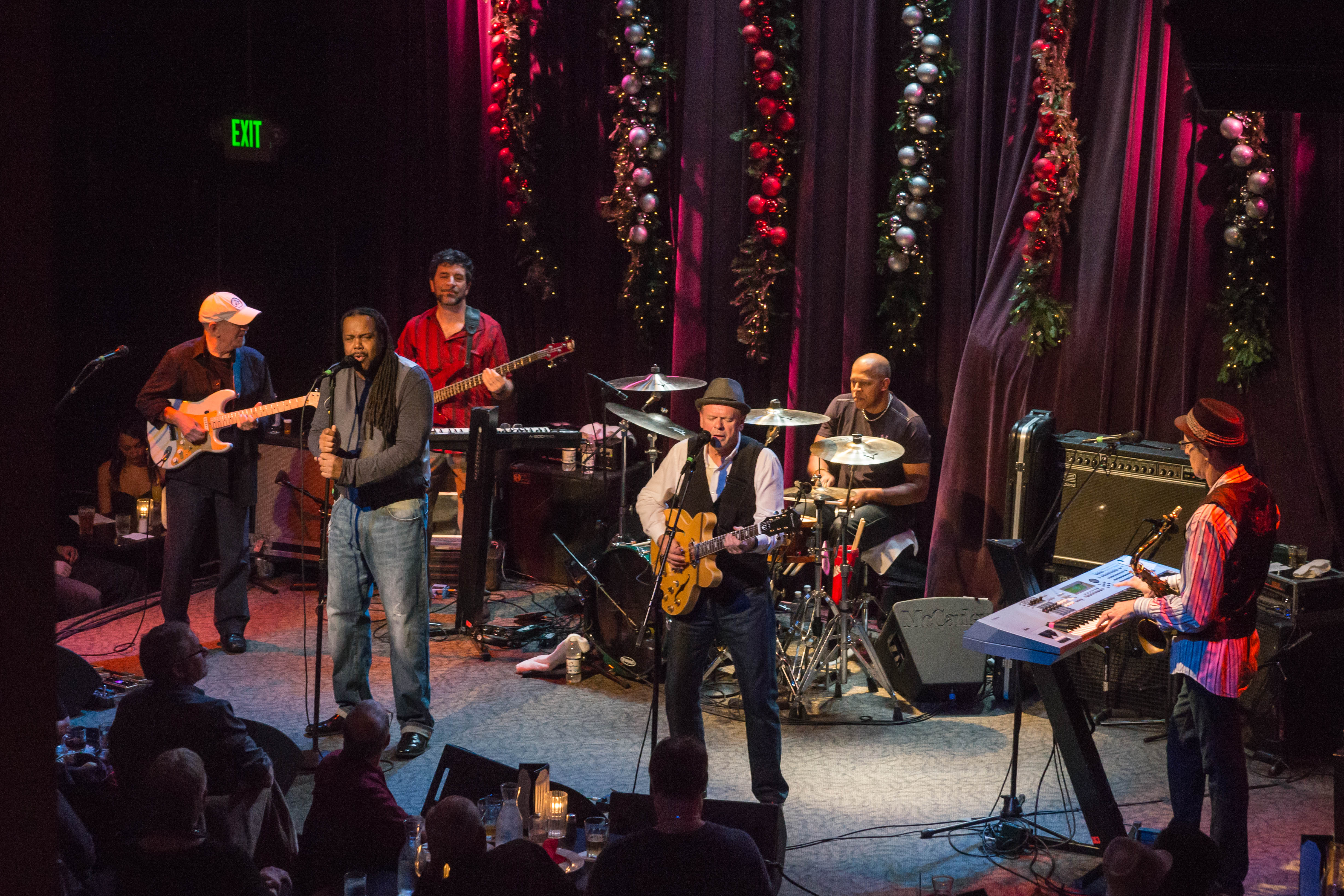 Average White Band performing at Dimitriou's Jazz Alley in 2013